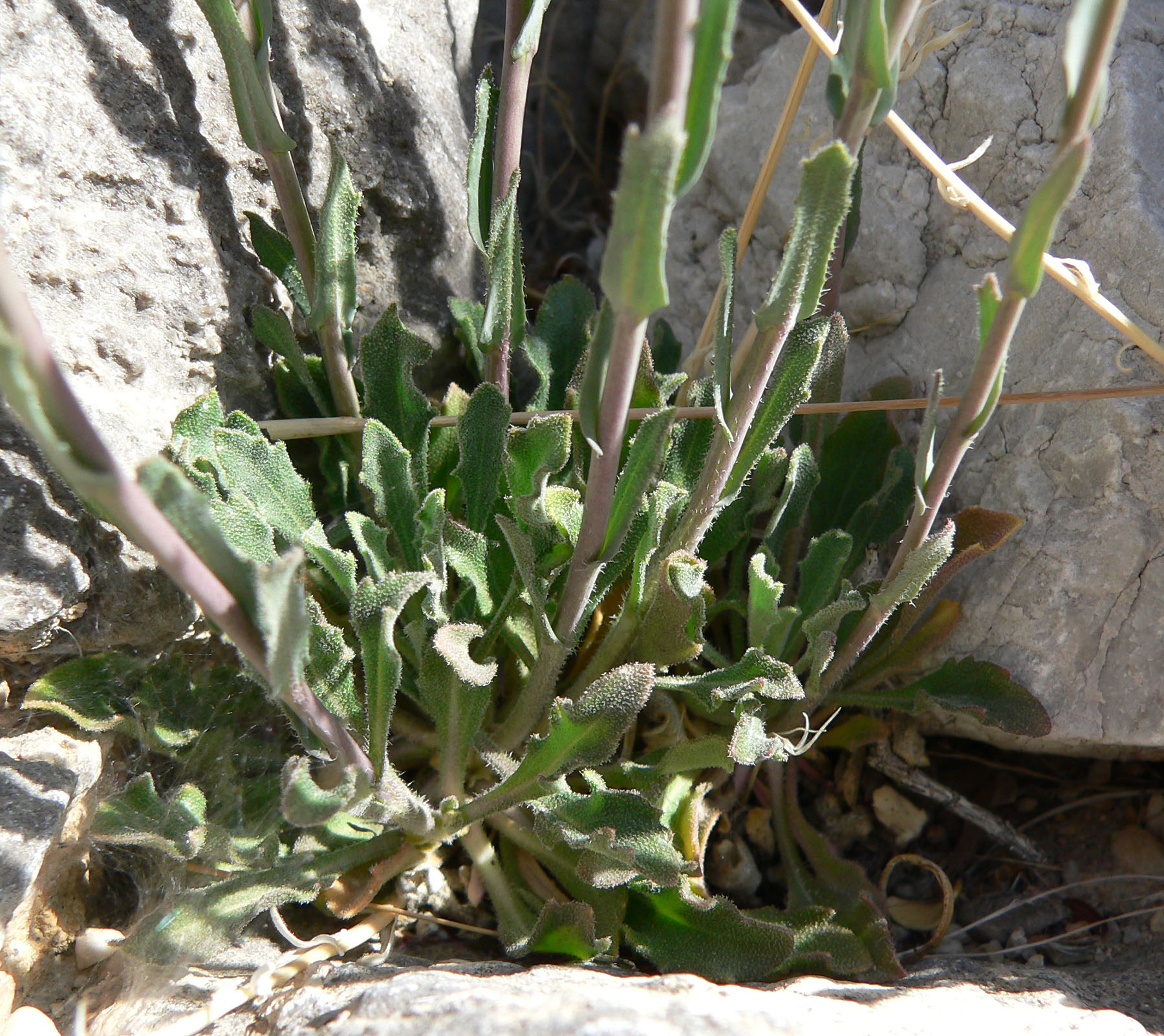 Boechera perennans in an unnamed canyon in the Spring Mountains west of Cheyenne Avenue, Las Vegas, Nevada